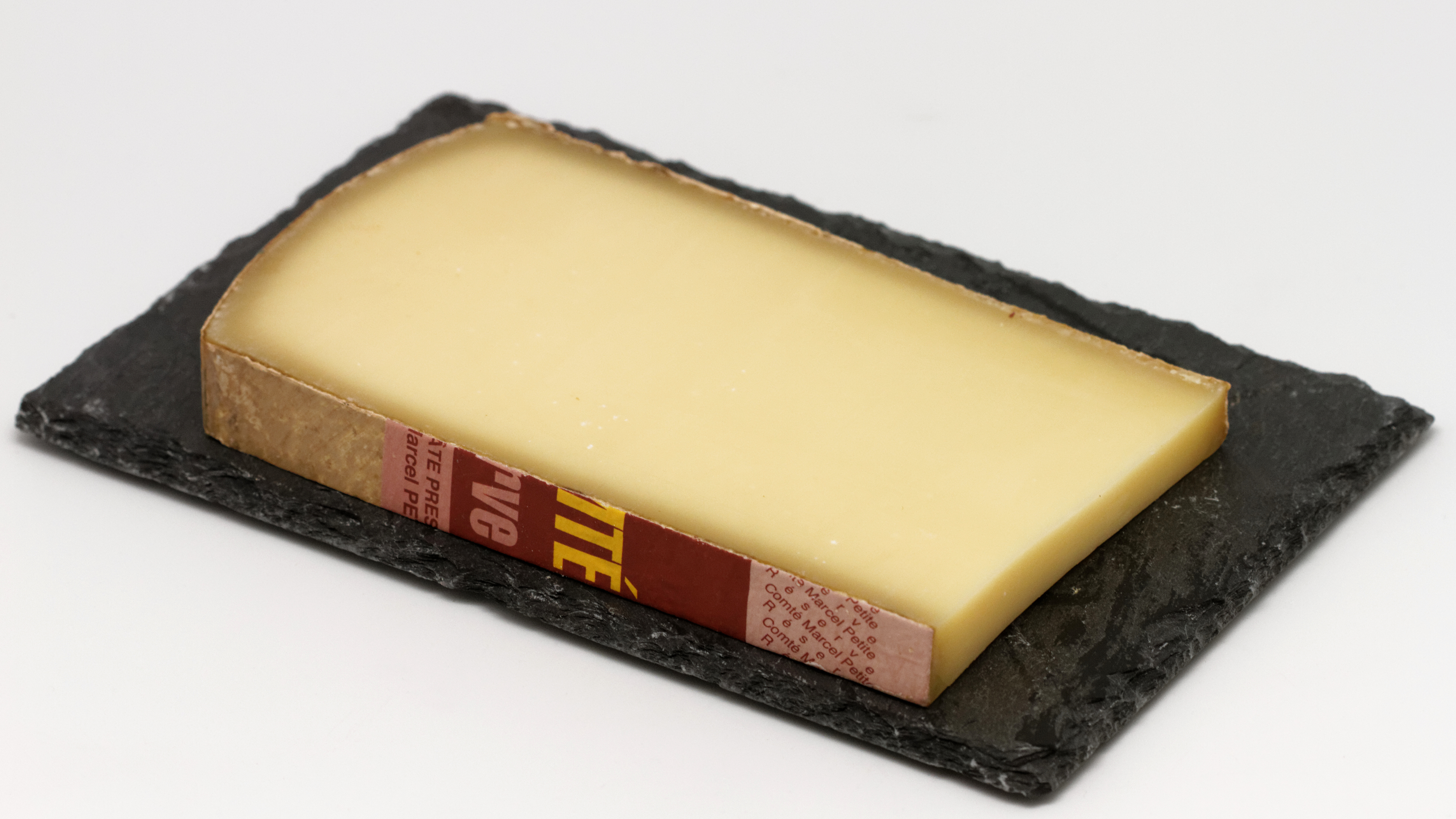 Comté (cow's milk cheese)